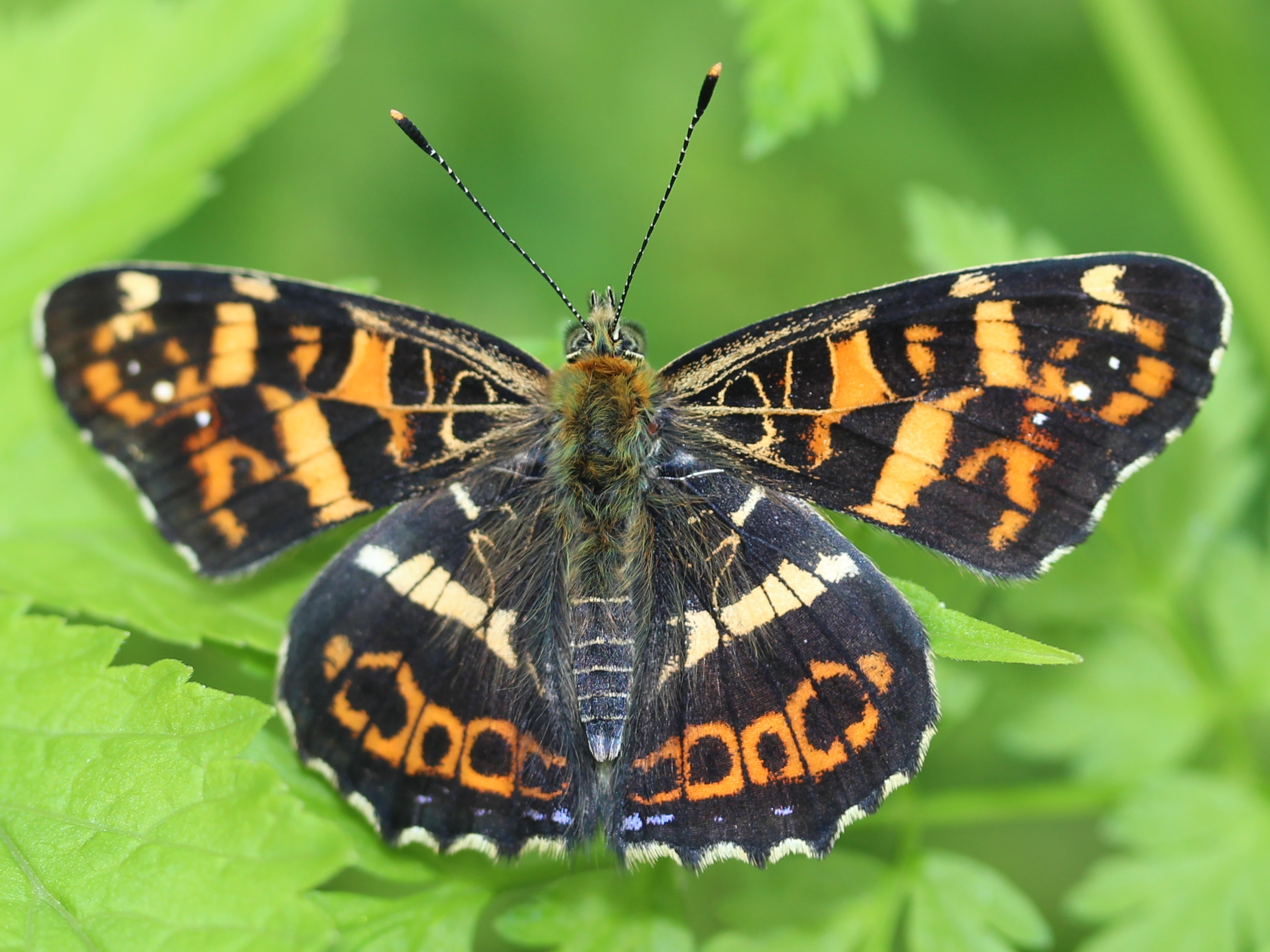 Araschnia burejana strigosa in Mount Ibuki, Japan.Back side is File:Araschnia burejana strigosa back.JPG